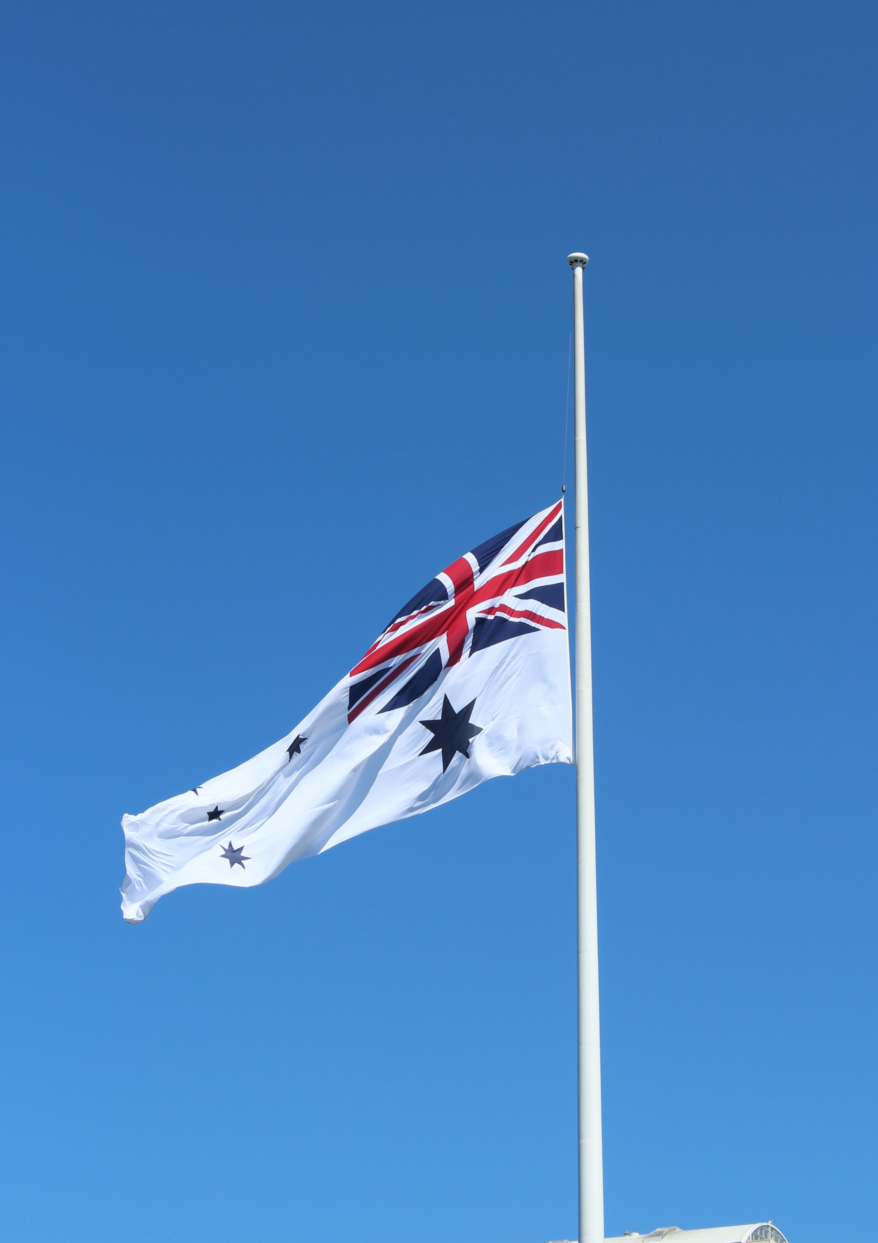 Australian Naval Ensign flying at half mast. In accordance with British tradition,[1] the flag is flying one flag's width below the top of the mast rather than half-way down the mast, thereby making way for the "invisible flag of death". This picture was taken on the day of the state funeral of Rusty Priest.